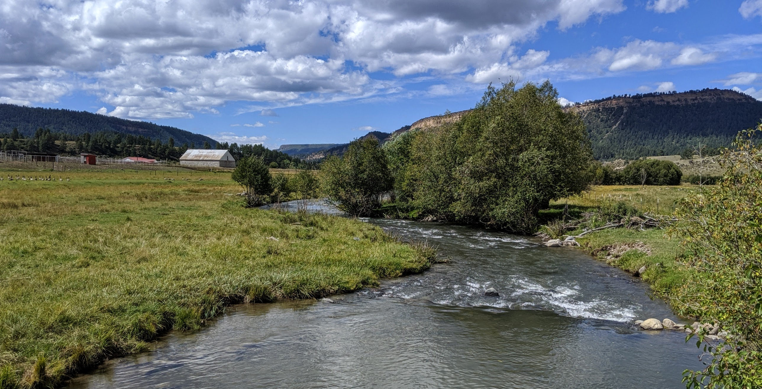 Navajo River just above US Highway 84 at Chromo, Archuleta County, Colorado